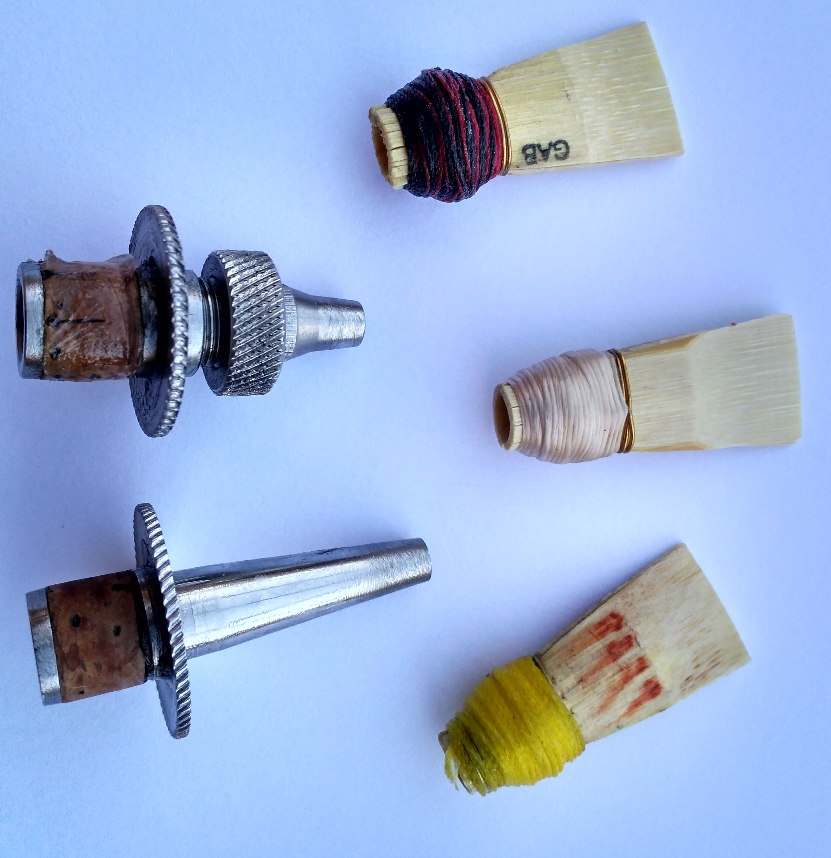 Dulzaina's double reeds and bocals (also named crooks)